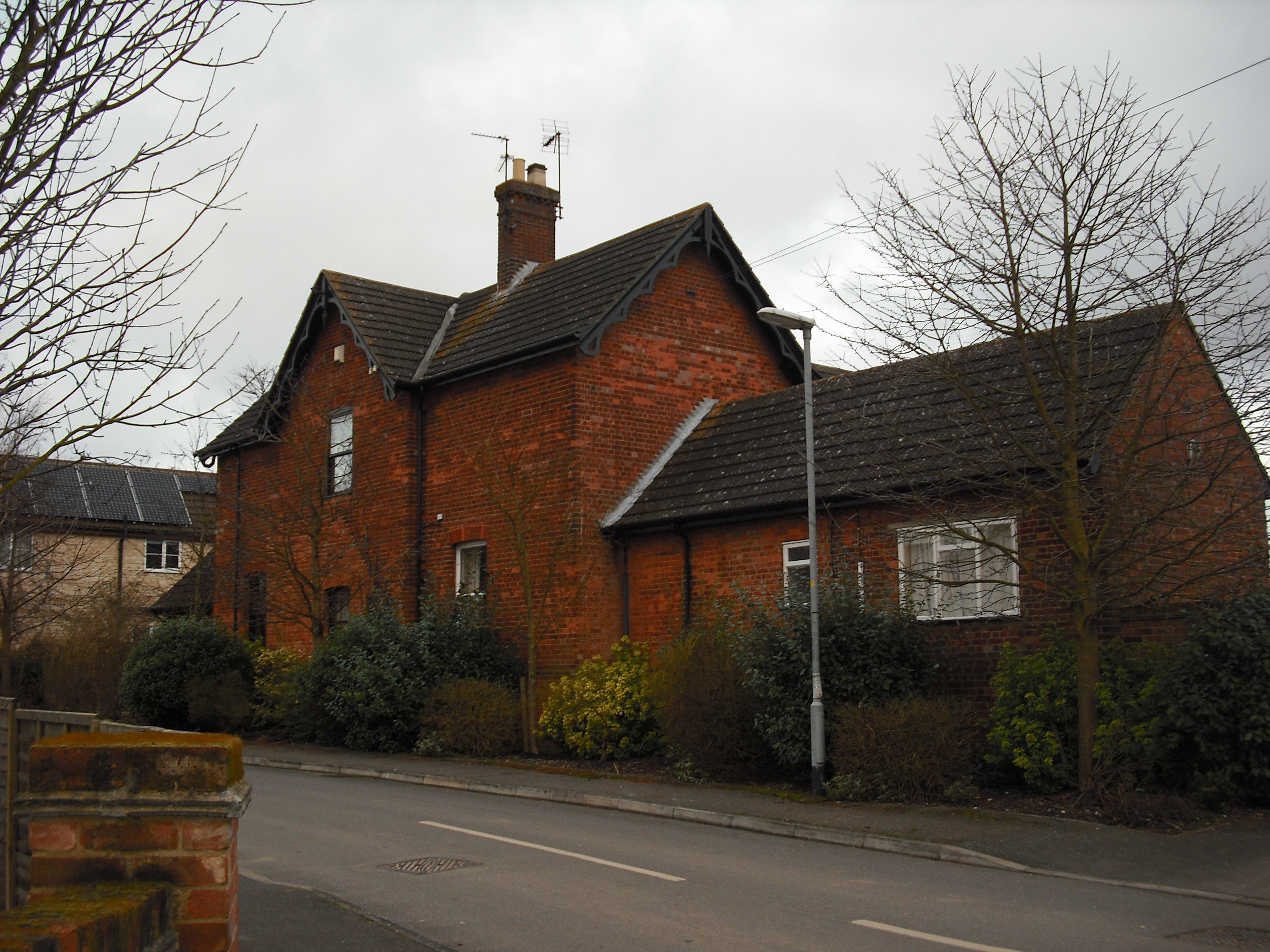 Morton Road railway station- now (2013) a private house